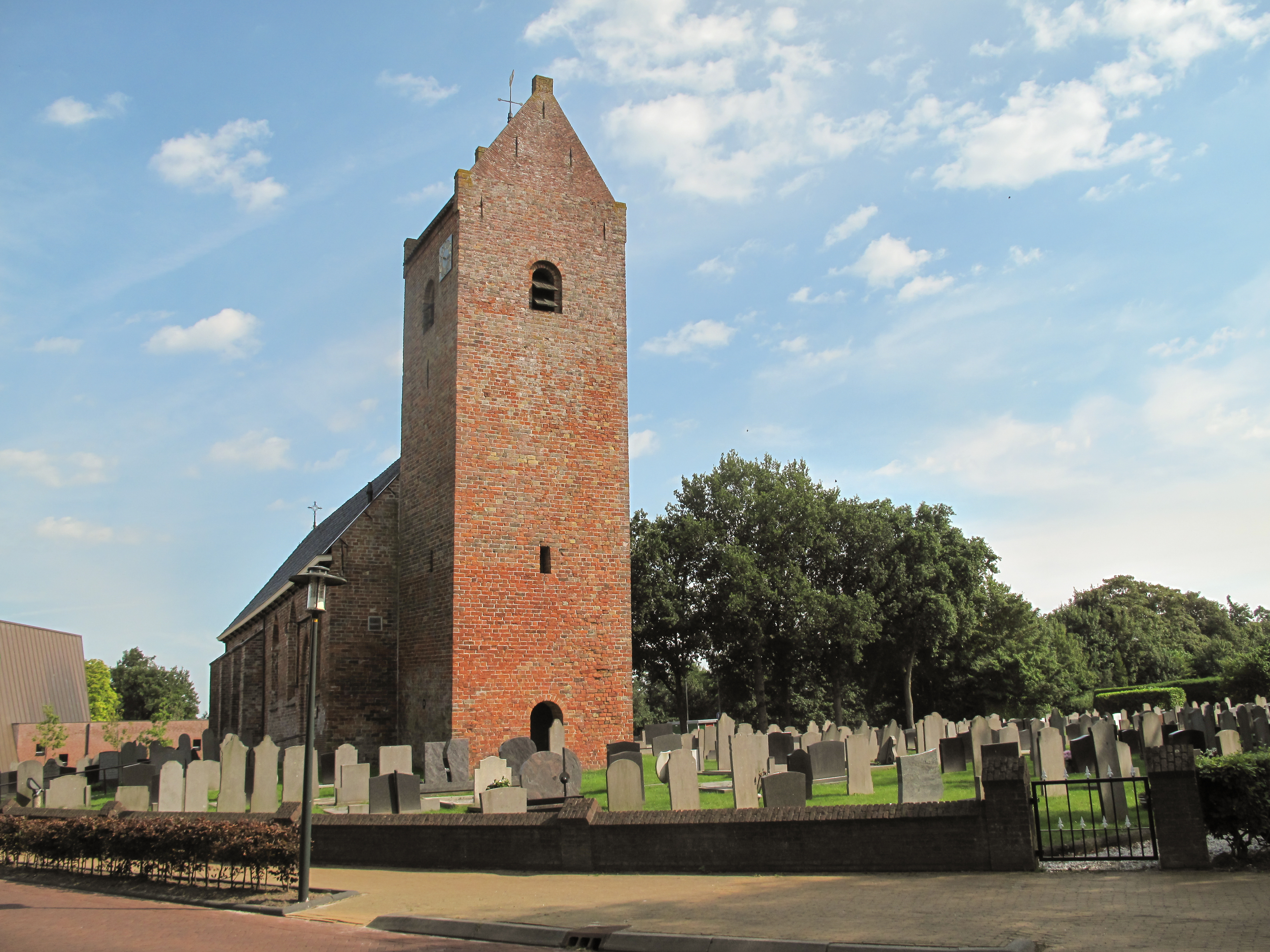 Kollumerzwaag, reformed church